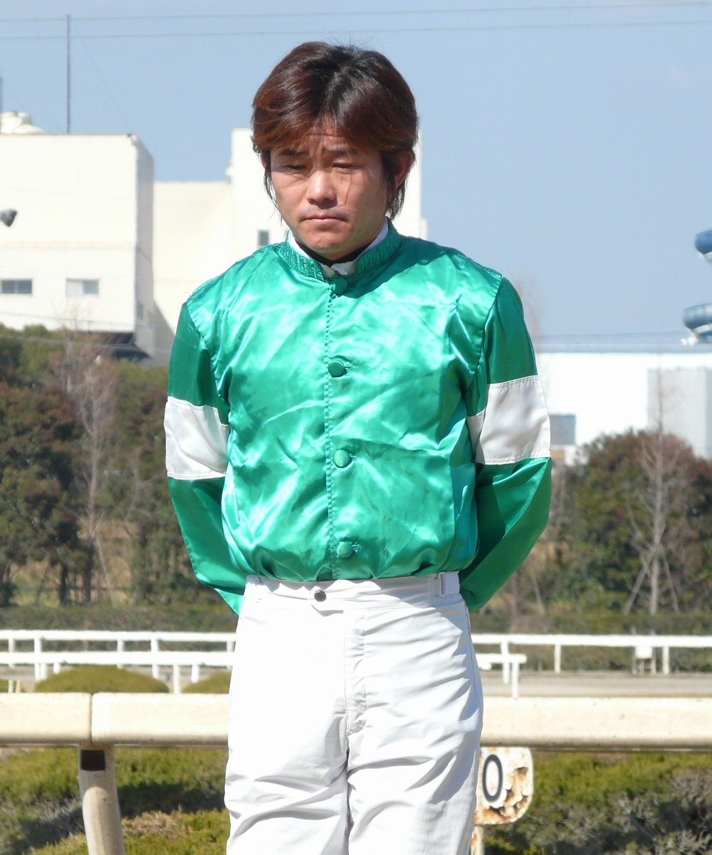 Futoshi-Komaki20110222